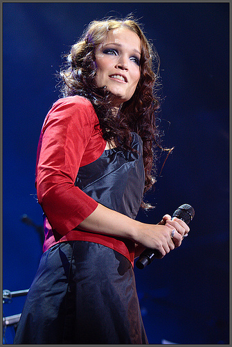 Tarja Turunen in concert.